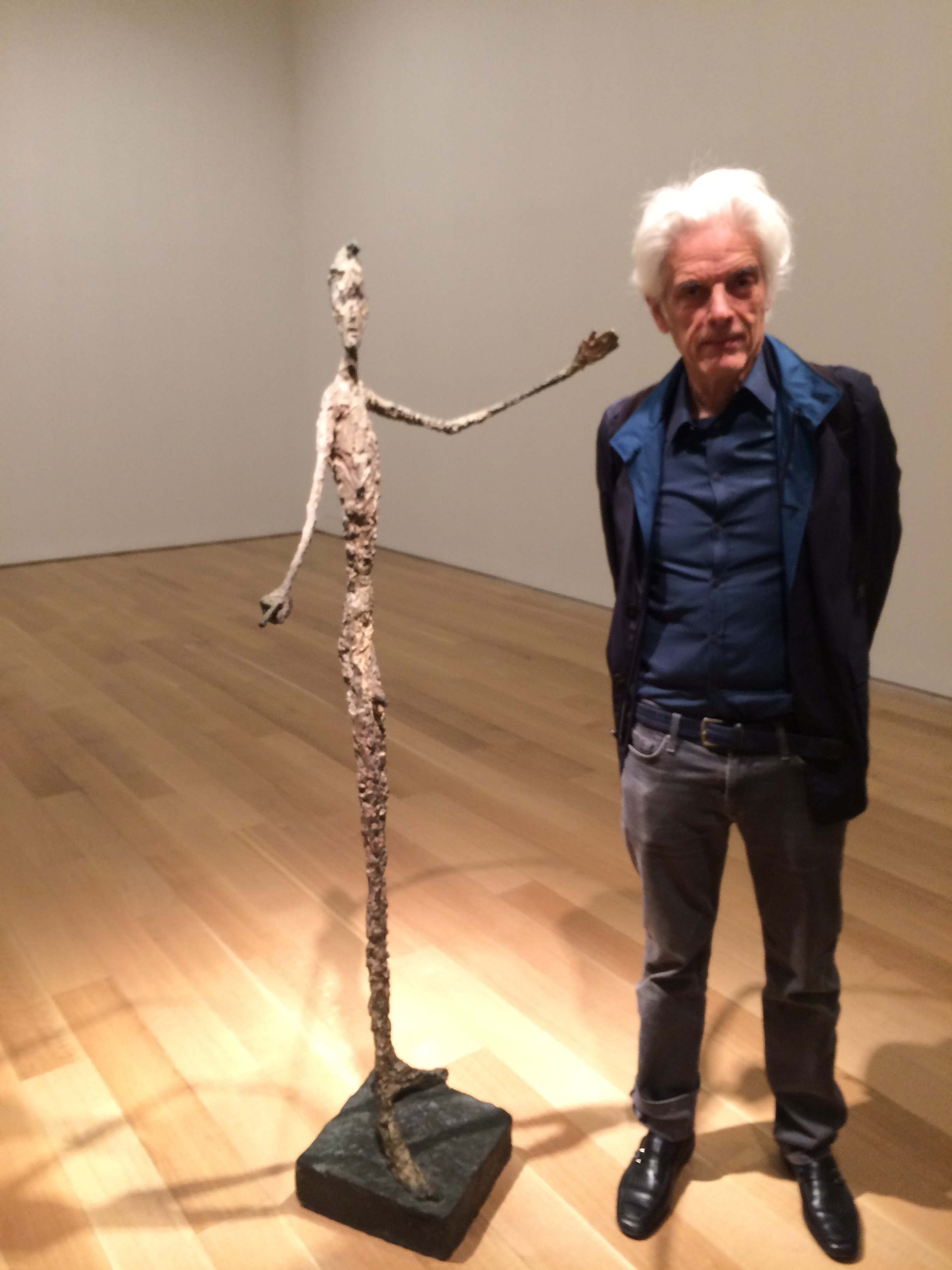 Sneak preview of the rare and fantastic hand-painted Alberto Giacometti bronze, "Pointing Man" from 1947 at Christie's New York.